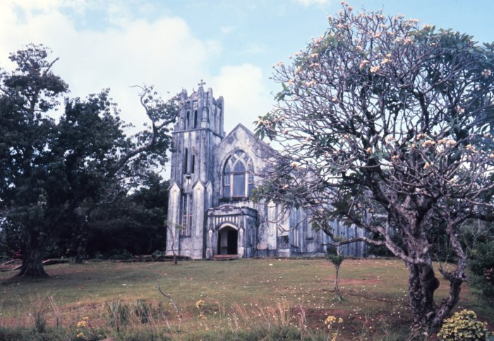 United Churches of Christ-Pohnpei Church at Kolonia, Pohnpei (Ponape), Micronesia